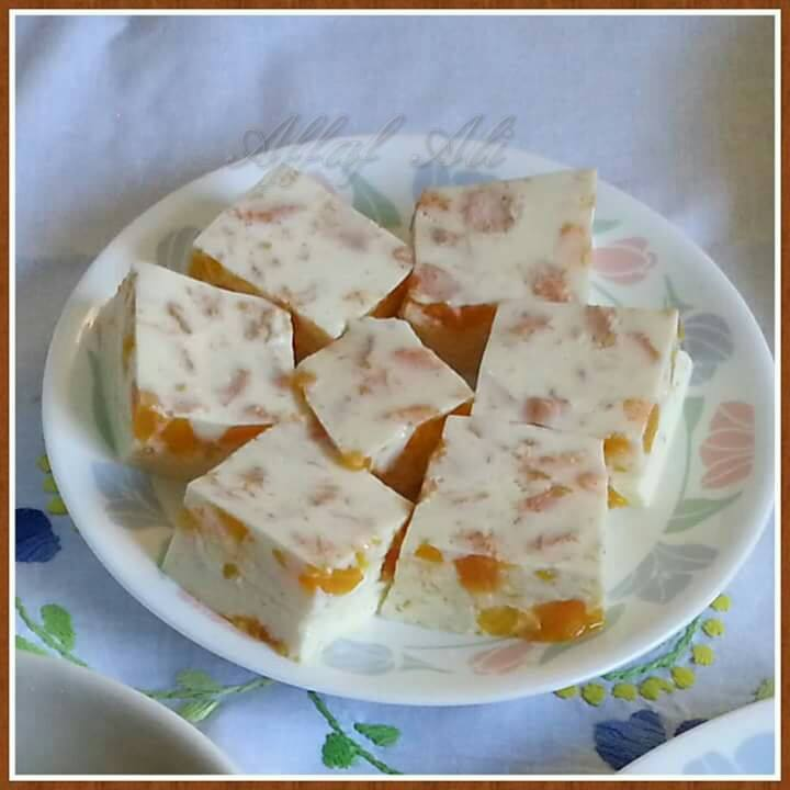 Agar agar or china grass pudding with mango pieces. Best summer dessert to beat the heat.